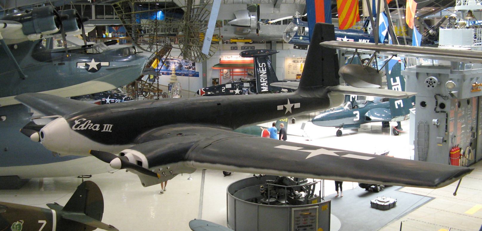 Interstate TDR-1 "assault drone" at the National Museum of Naval Aviation, Pensacola, Florida.